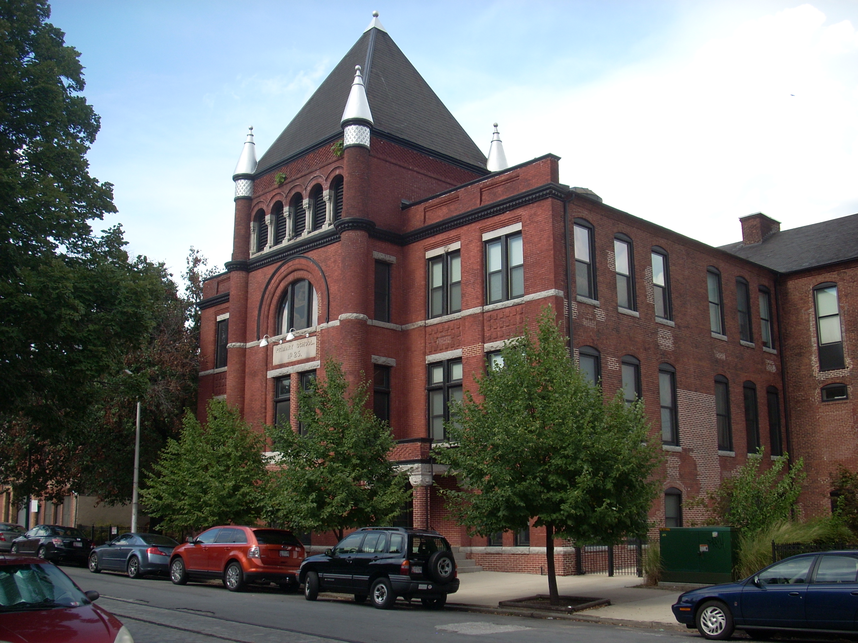 Public School No. 25, S. Bond St, Baltimore City, Maryland Object location39° 17′ 06″ N, 76° 35′ 43″ W